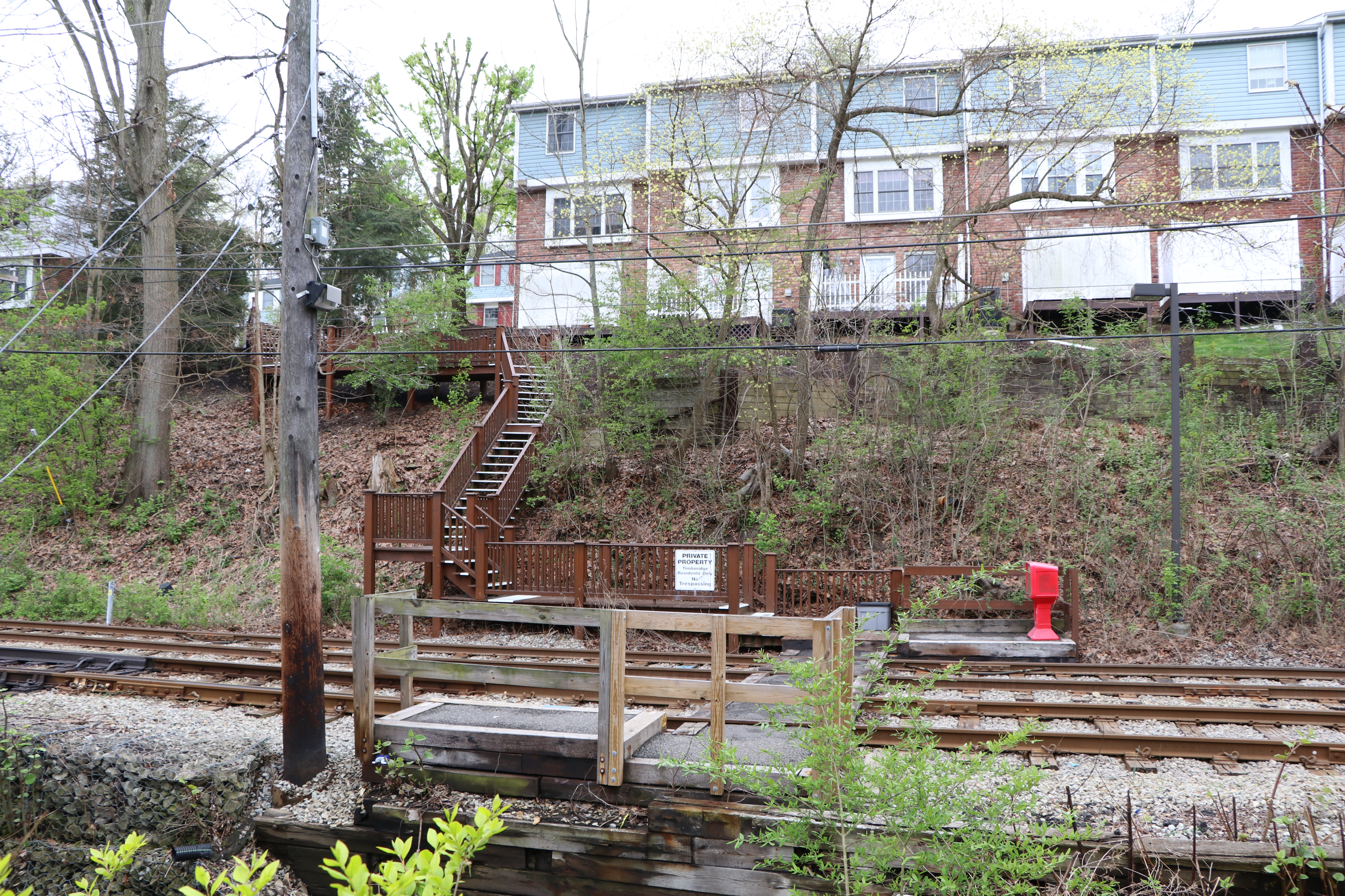 Sandy Creek station on the Blue Line, Bethel Park, PA. View looking west at the outbound platform. Taken from the Sandy Creek apartments, to which this station no longer has pedestrian access.